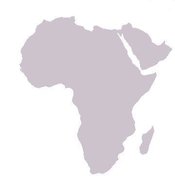 Map of Africa according to the "African Hebrew Israelites of Jerusalem" or "Kingdom of Yah" group, a black Hebrew organization. A portion of the members of the group live today in Israel. They consider part of the middle-east, including Israel, to belong to Africa.